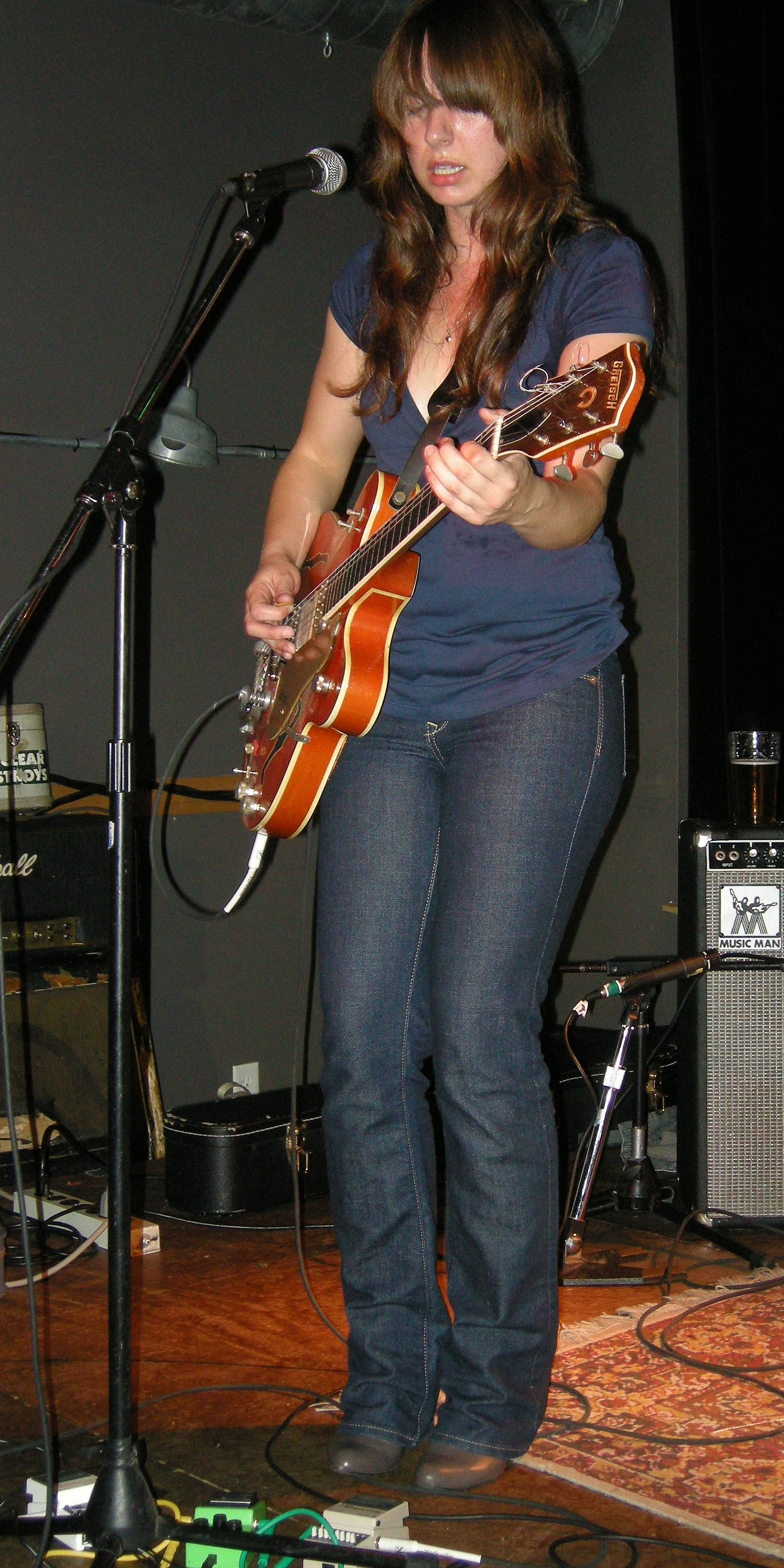 HotKid